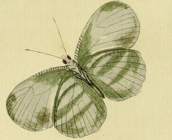 Plate CL F: "(Papilio) Medusa" ( = Leptosia medusa, iconotype?), see Funet and The Global Lepidoptera Names Index, NHMN